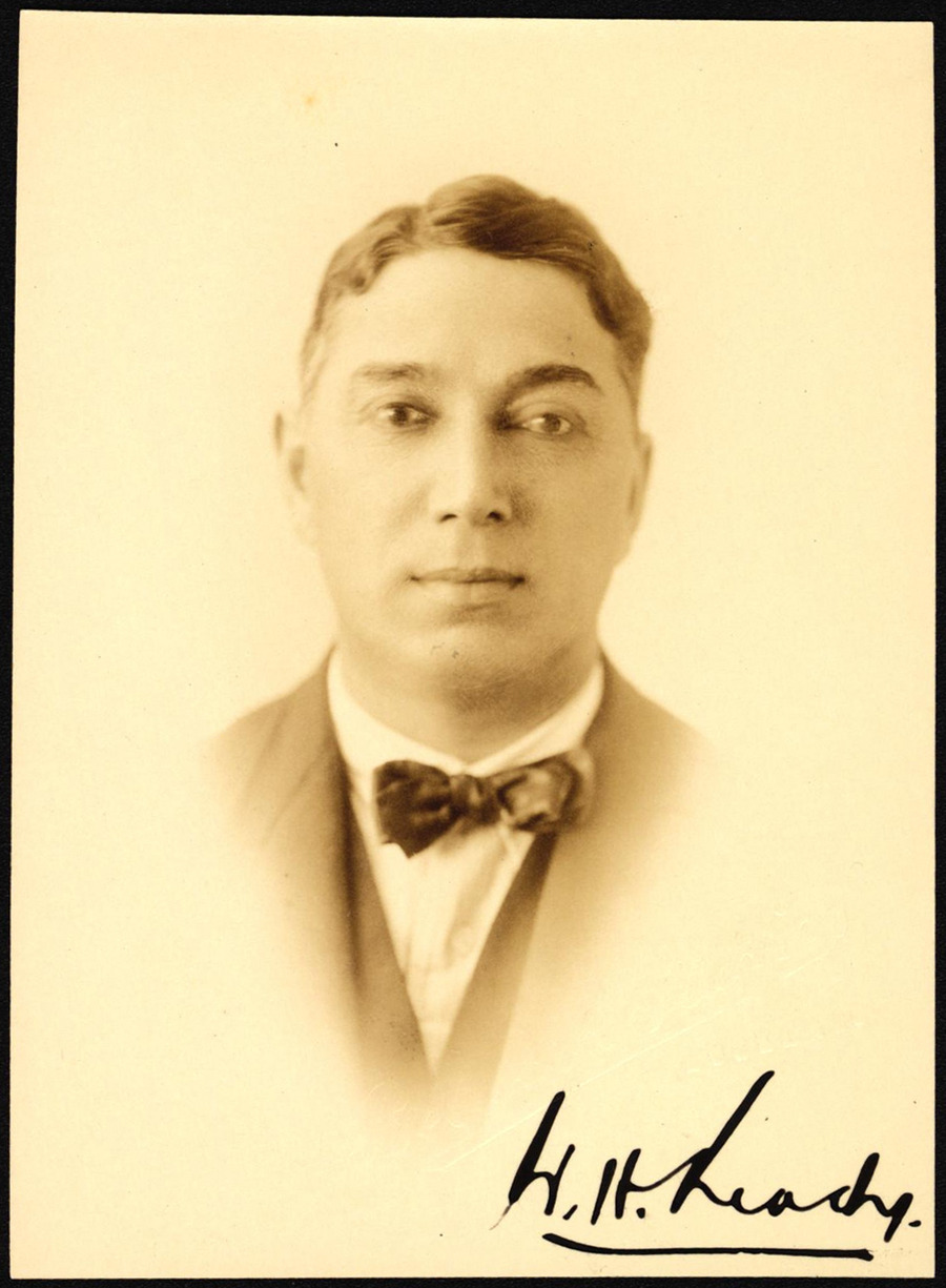 Archives New Zealand Reference: ACGO 8333 IA1 1350 / 15/11/30815